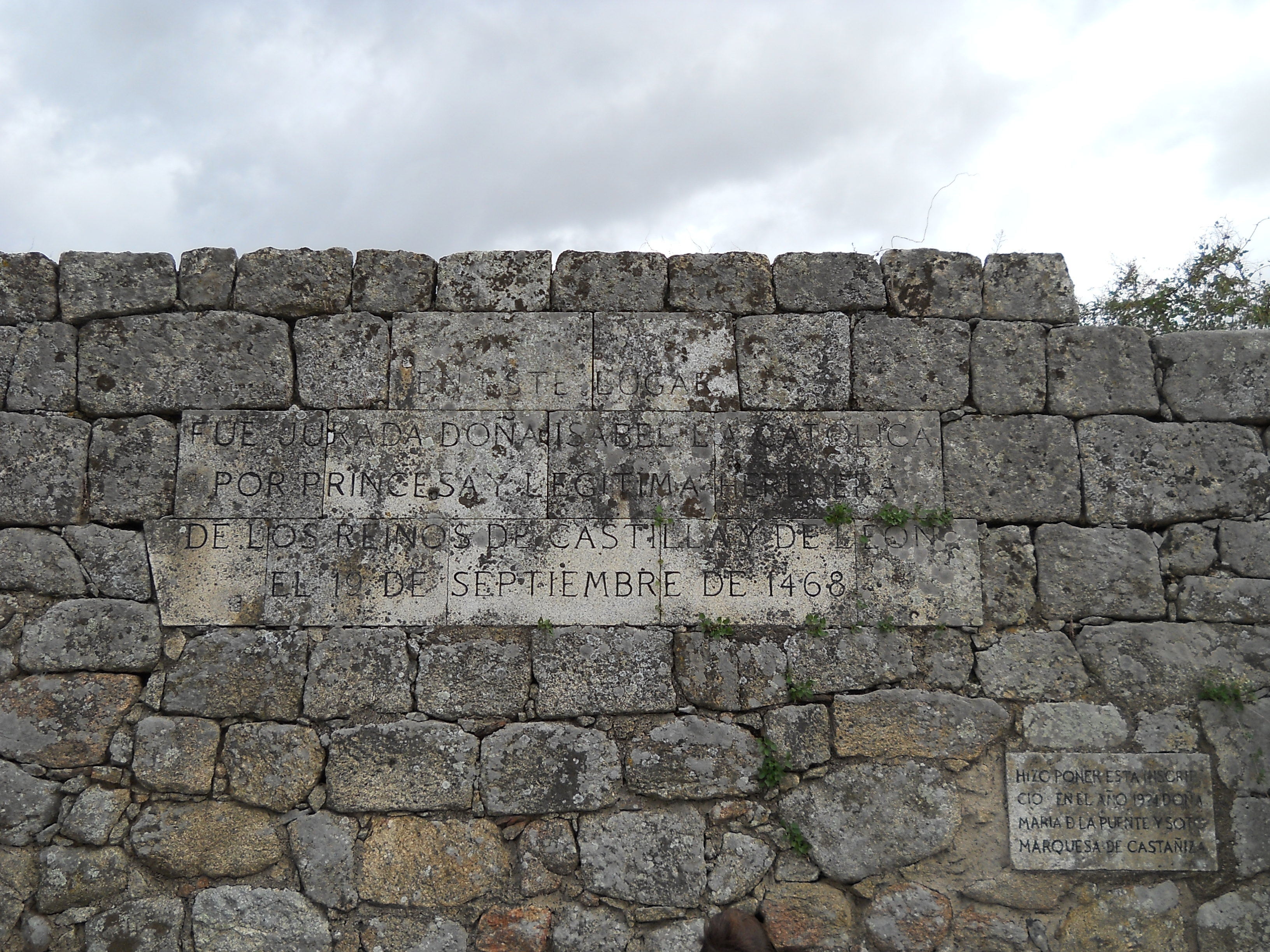 Commemorative plaque of the Treaty of the Bulls of Guisando, El Tiemblo, Ávila, Spain